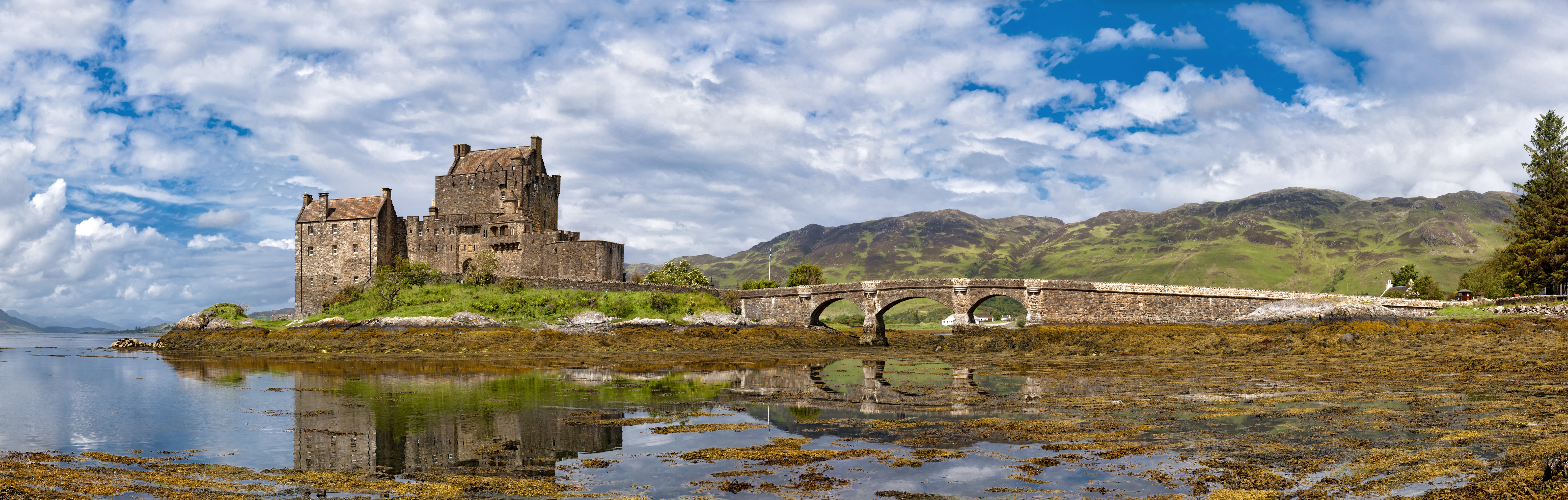 Panorama Eilean Donan Castle viewed from south. With the complete access bridge.